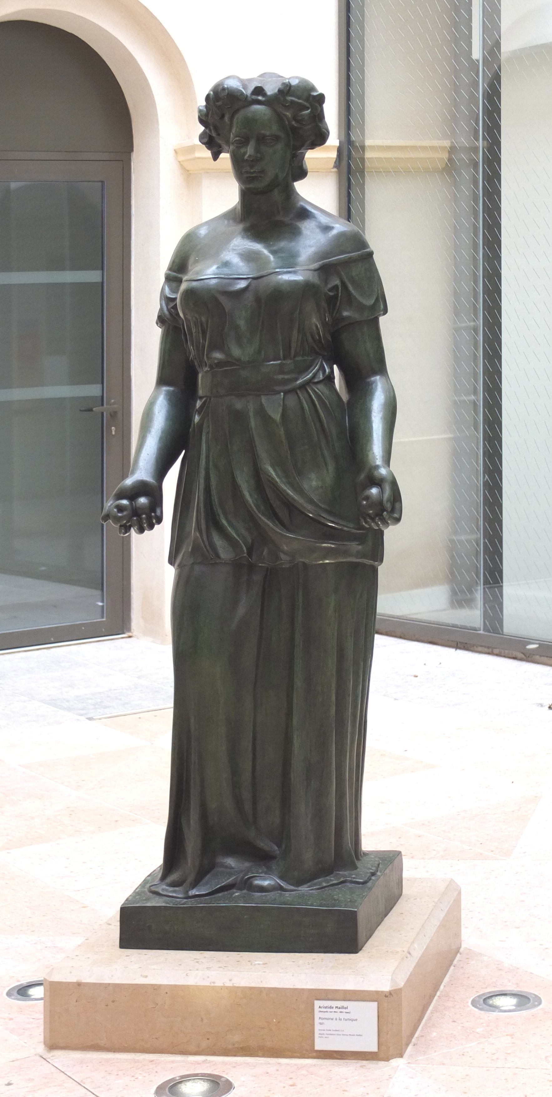 "Pomone à la tunique", bronze statue (1921) by Aristide Maillol in the Musée Hyacinthe-Rigaud, Perpignan Aristide Maillol (1861–1944) Alternative names Aristide Joseph Bonaventure MaillolDescriptionFrench sculptor, painter, draughtsman and printmakerDate of birth/death 8 December 1861 27 September 1944 Location of birth/death Banyuls-sur-Mer Banyuls-sur-MerWork location Paris (1881-1900), Banyuls-sur-Mer (1893-1944)Authority control : Q153920 VIAF: 14228 ISNI: 0000 0001 0854 4692 ULAN: 500001596 LCCN: n80015568 NLA: 35202089 WorldCat creator QS:P170,Q153920 Musée Hyacinthe-Rigaud Native nameMusée Hyacinthe RigaudLocation16, rue de l'Ange, 66000 PerpignanCoordinates42° 41′ 53.06″ N, 2° 53′ 37″ E Established1833Web pagemusee-rigaud.frAuthority control : Q3329201 VIAF: 130935657 ISNI: 0000 0001 2158 2693 LCCN: n82141022 OSM: 1227556 BNF: 11877508z WorldCat institution QS:P195,Q3329201